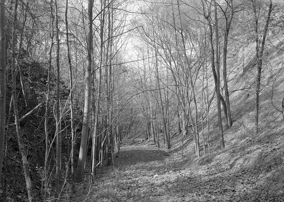 Roadbed in cut west of Bridge No. 1416, Fourth C&O Canal Crossing, MP 142, looking southwest. - Western Maryland Railway, Cumberland Extension, Pearre to North Branch, from WM milepost 125 to 160, Pearre, Washington County, MD.